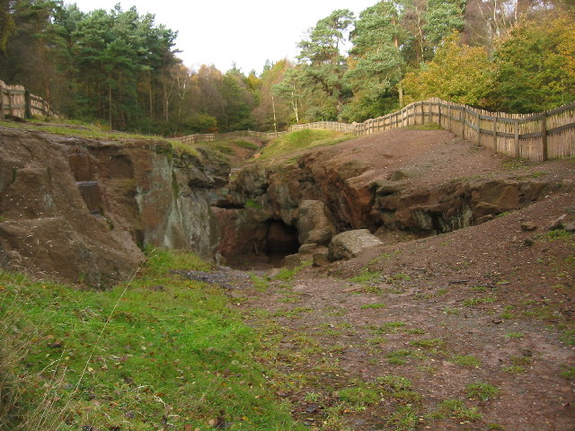 The Edge Alderley Edge - The Edge has a long history for mining - lots of mine shafts, and tunnels in the area.